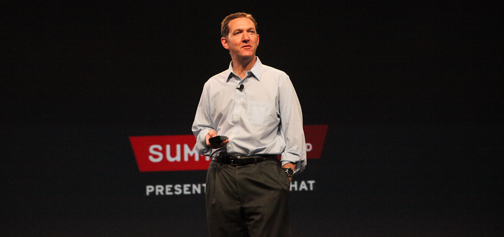 Jim Whitehurst